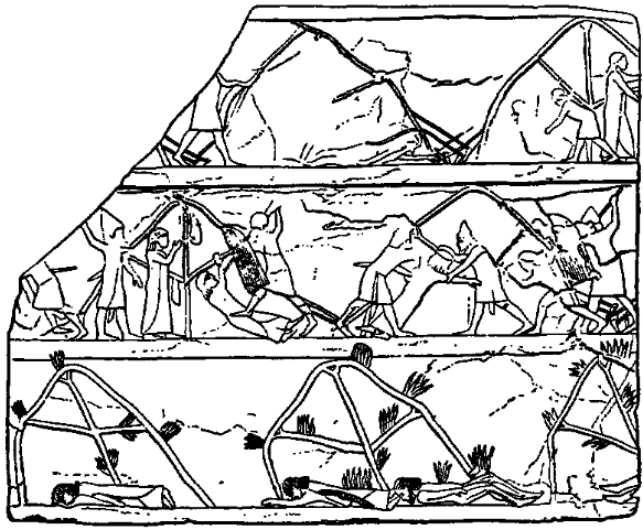 An illustration from the Encyclopaedia Biblica, a 1903 publication which is now in the public domain. Fig. 2 for article "Tent". Image of Assyrian depiction, now housed in the British Museum, of Arabic tents, during the reign of Ashurbanipal